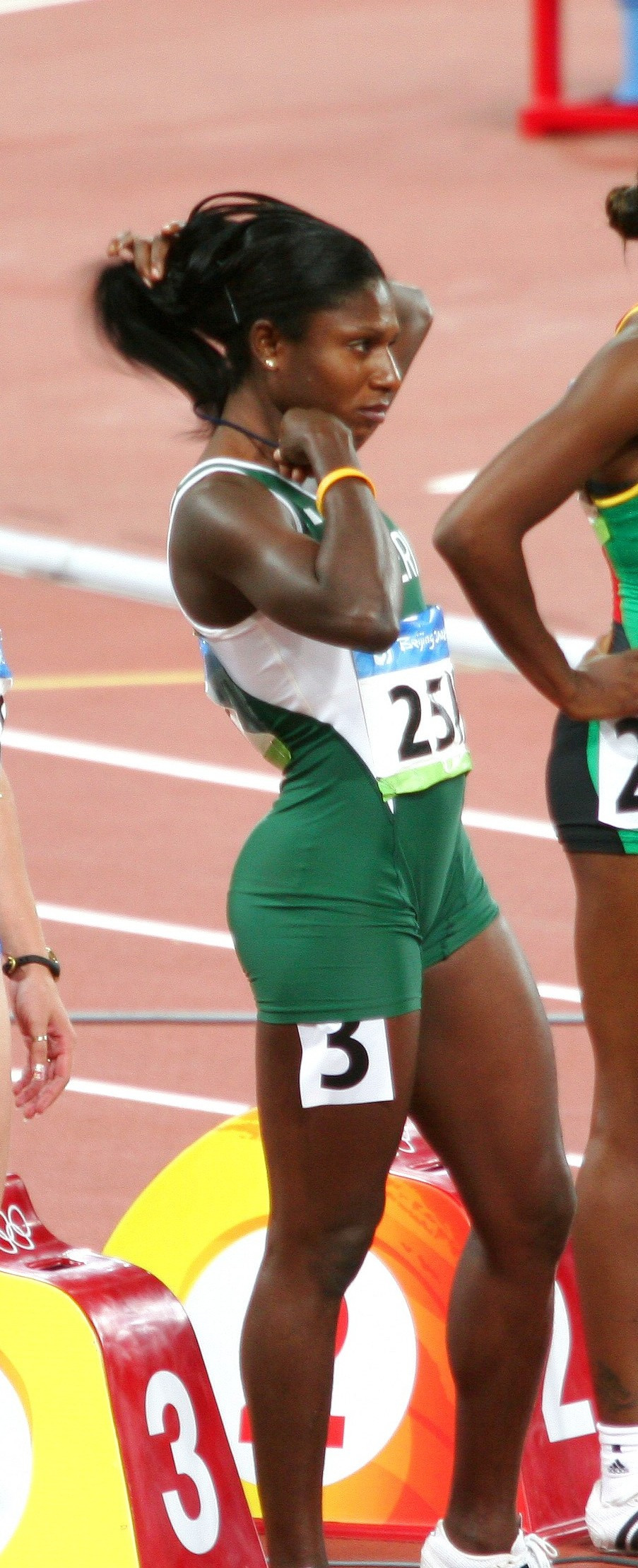 Ene Franca Idoko in the women's 100m heats inside the National Stadium.